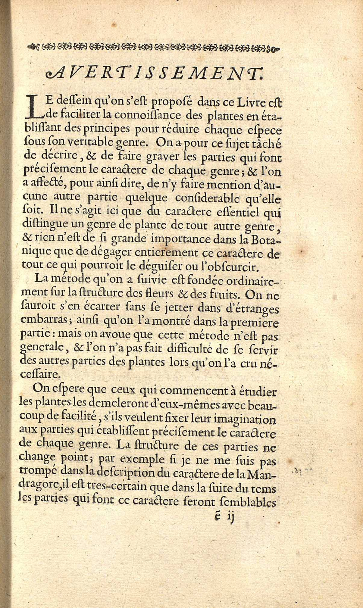 Tournefort, J. Pitton de (1717). Élémens de botanique. First page of the "Avertissement", in which Tournefort explanes the distinction he makes between a species and a genus.